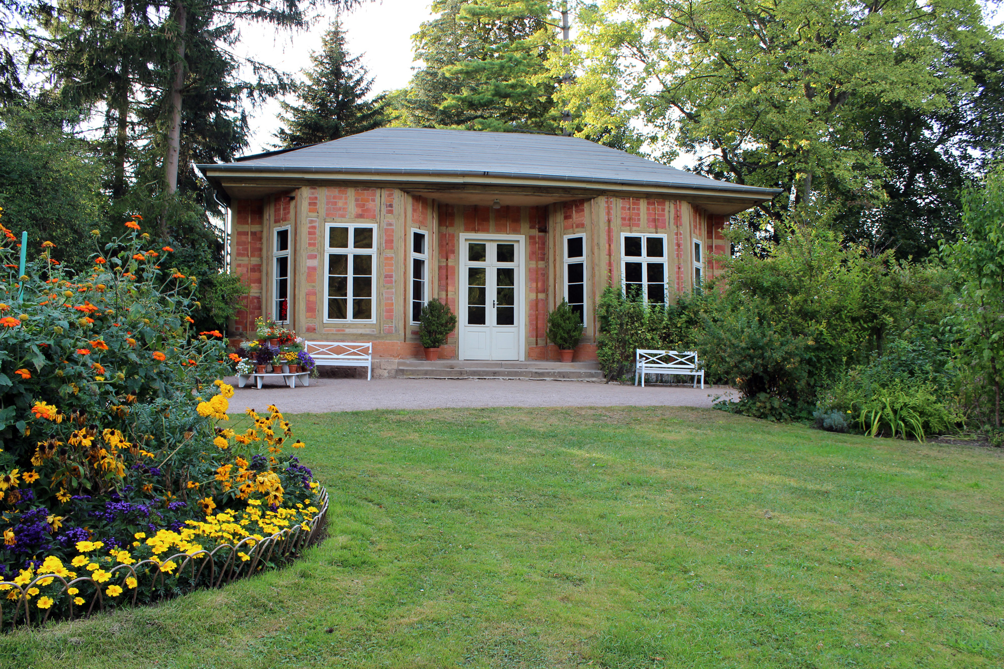 The teahouse in the park of Tiefurt House